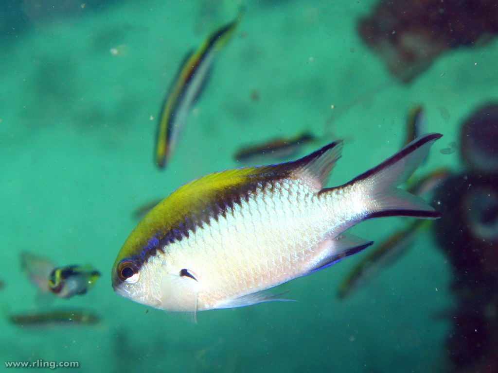 A Yellow-back Puller (Chromis nitida). Fairy Bower, Manly, NSW